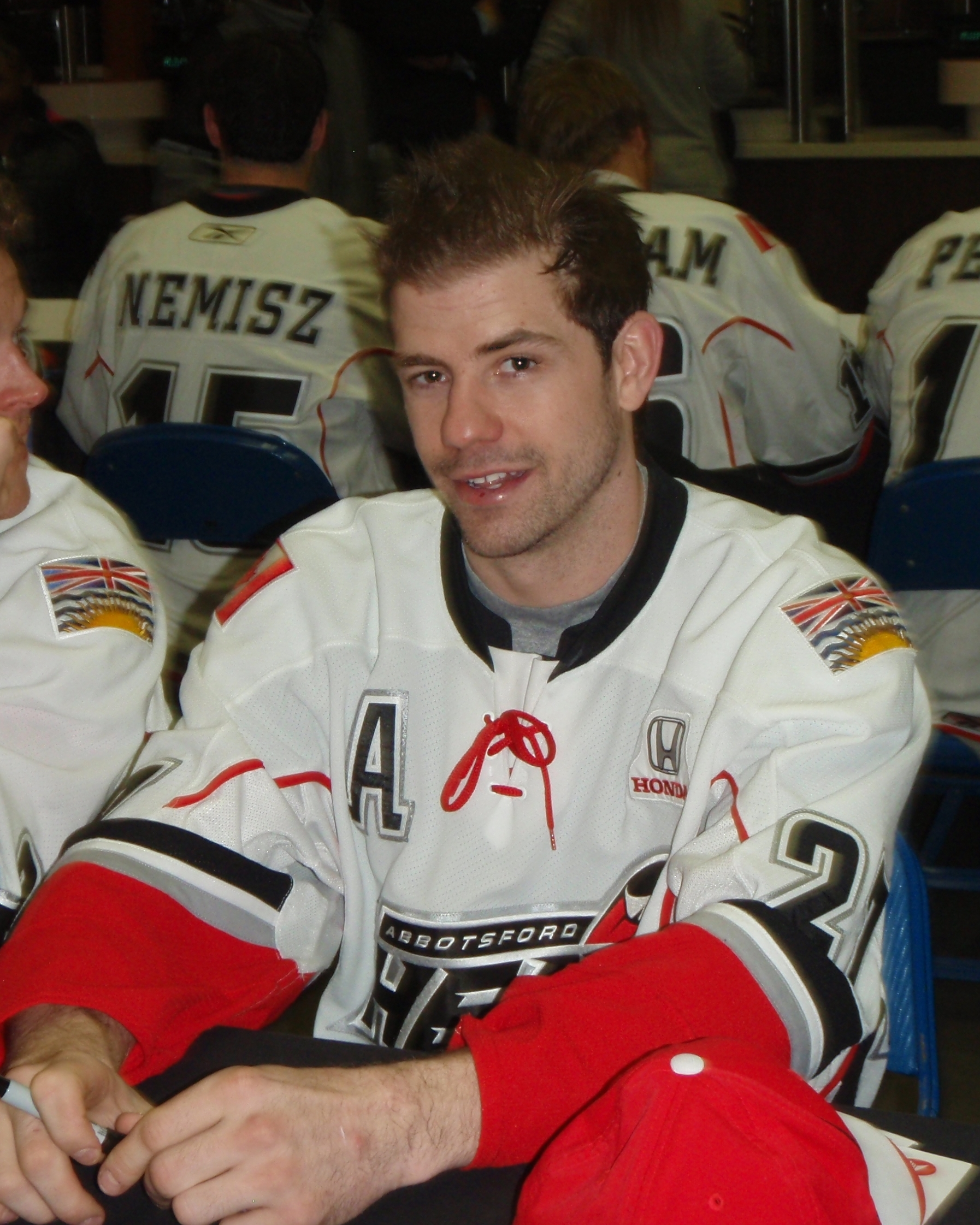 Members of the American Hockey League's Abbotsford Heat signs autographs for fans. Photo taken in Calgary, Alberta on February 18, 2011.